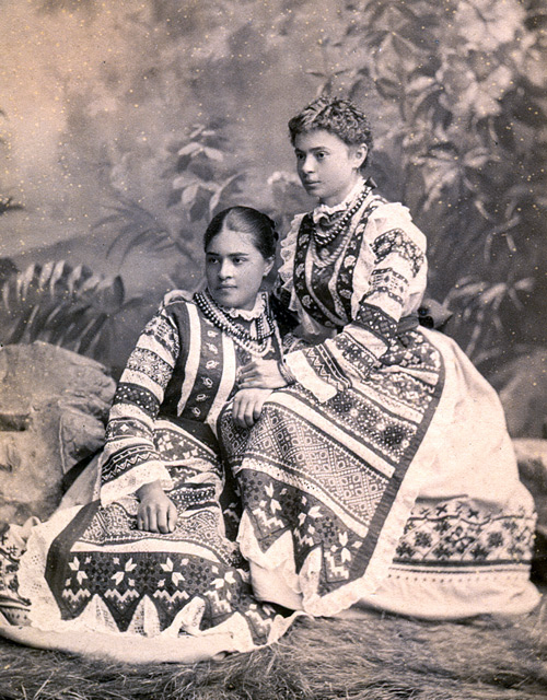 Oleksandra and Olha Khoruzhynska. Olha Khoruzhynska was married to the famous Ukrainian writer and poet Ivan Franko.